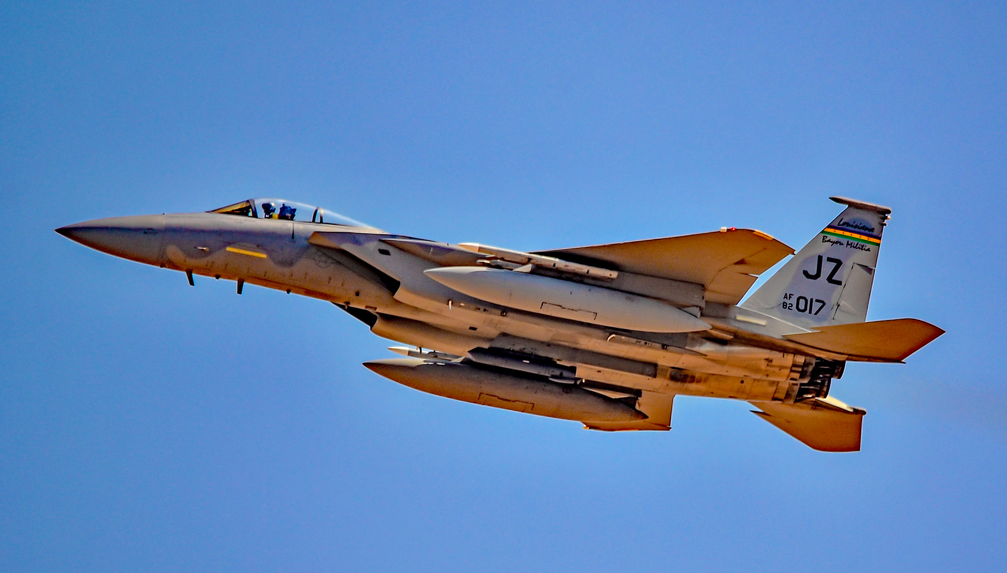 Louisiana Air National Guard Red Flag 16-4 Las Vegas - Nellis AFB (LSV / KLSV) TDelCoro August 24, 2016